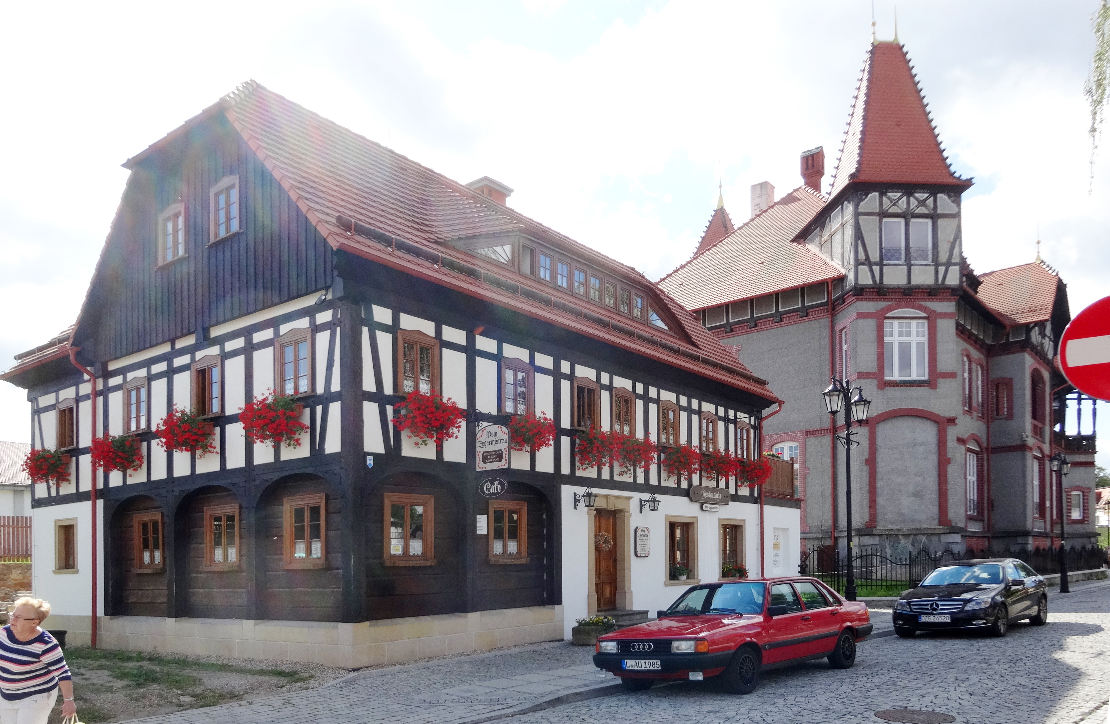 Dom Zegarmistrza in Bogatynia, Poland